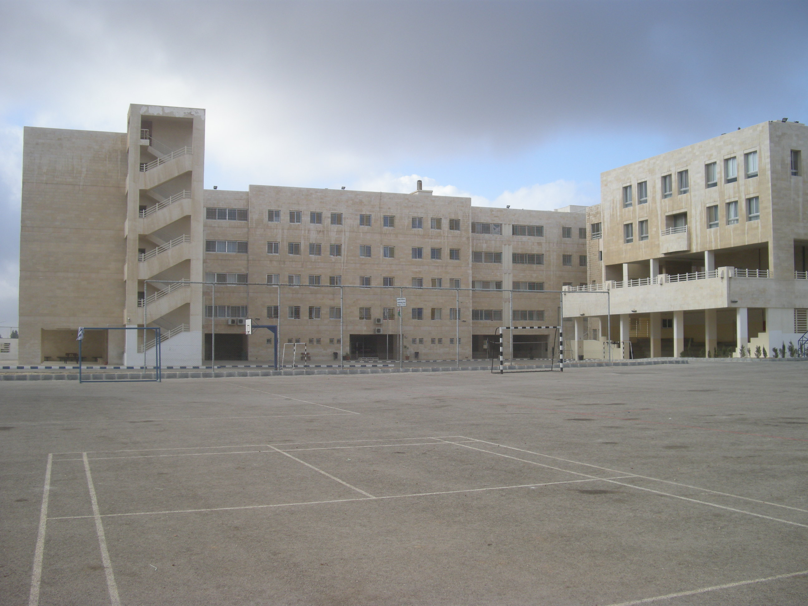 The grounds of National Orthodox School, East Side